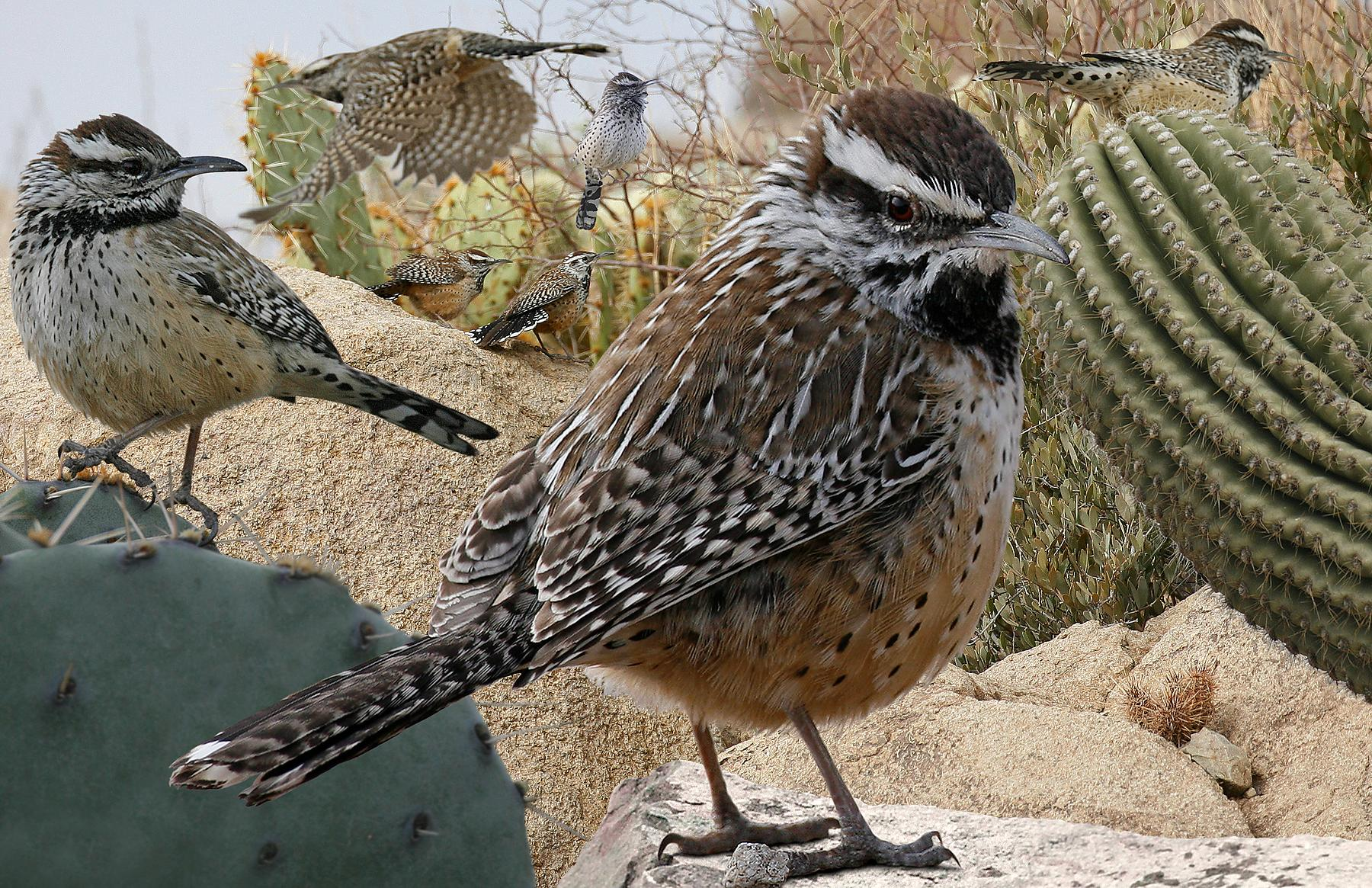 Cactus wren From The Crossley ID Guide Eastern Birds